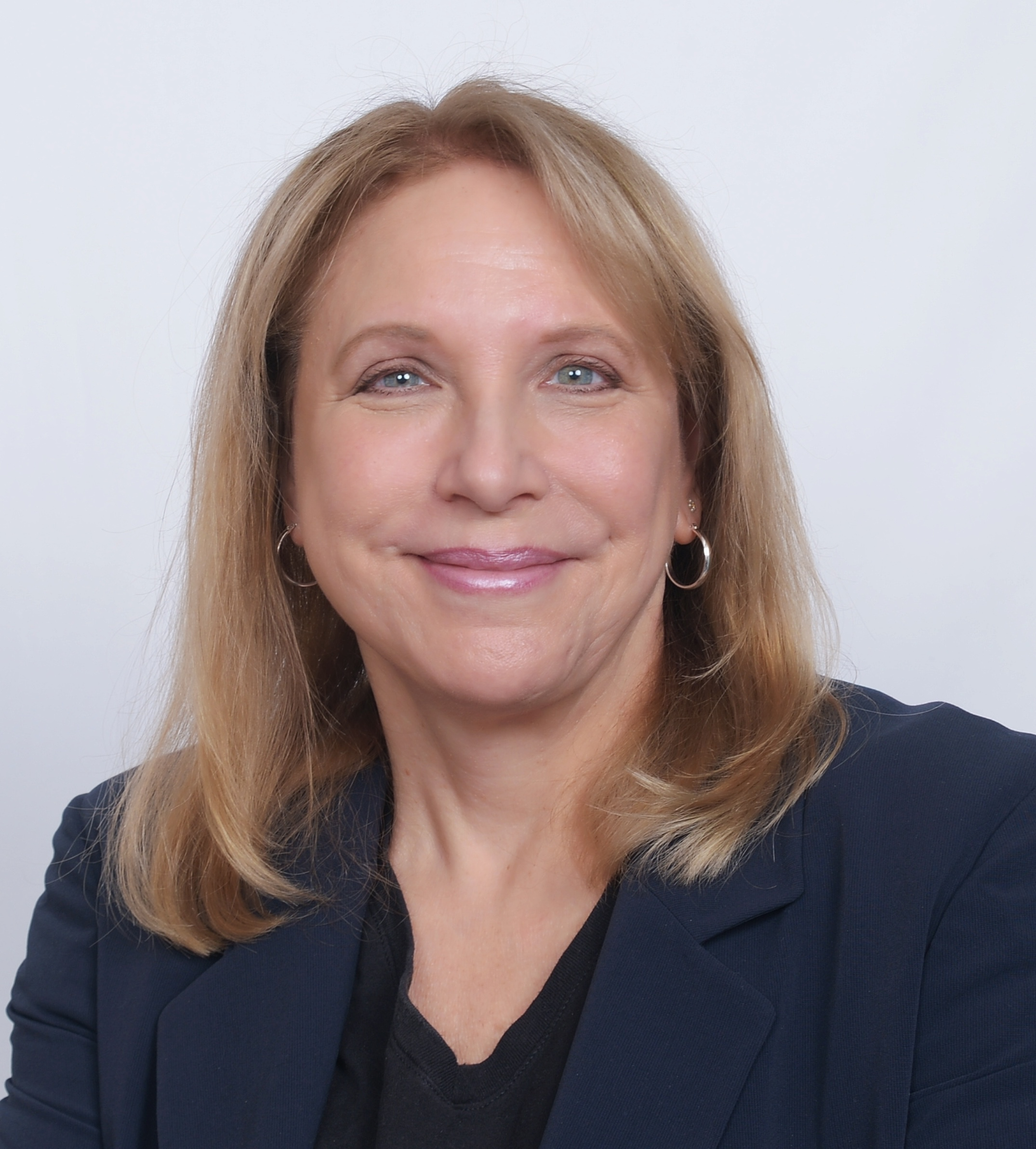 Lisa Urkevich in Abu Hassania Kuwait, 2016